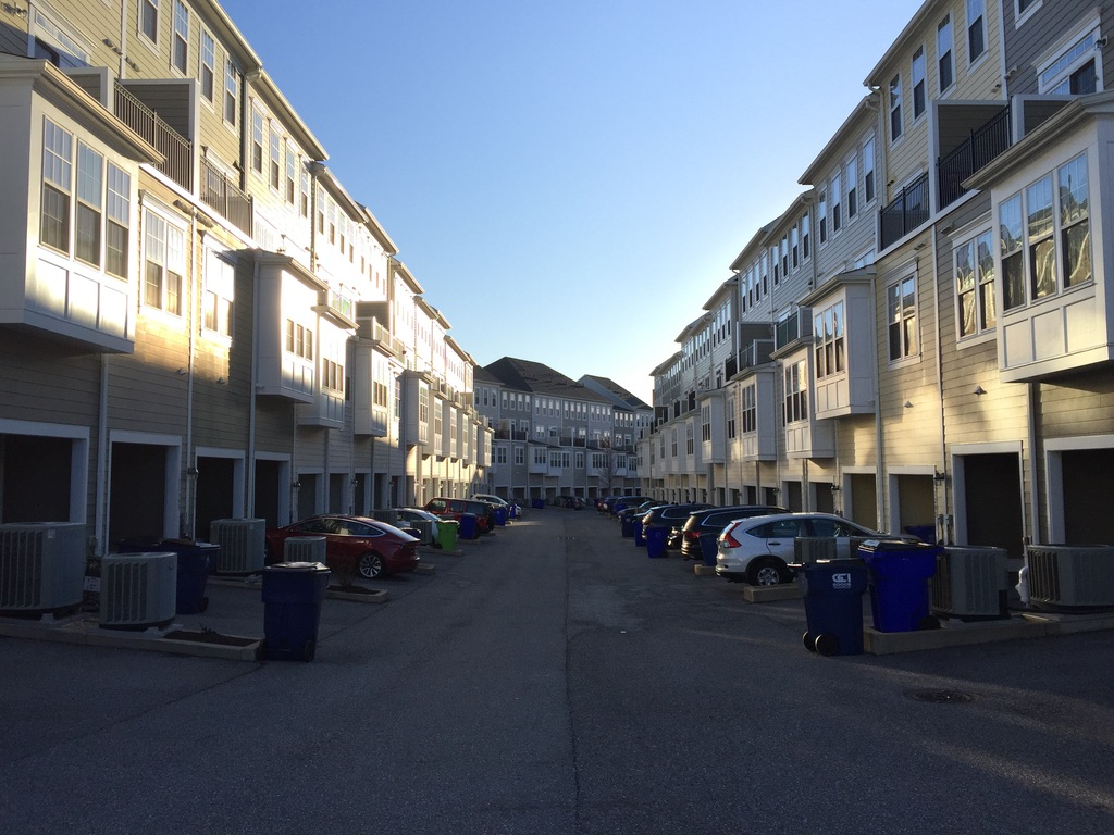 The alleyway behind Ellington Street near sunset.